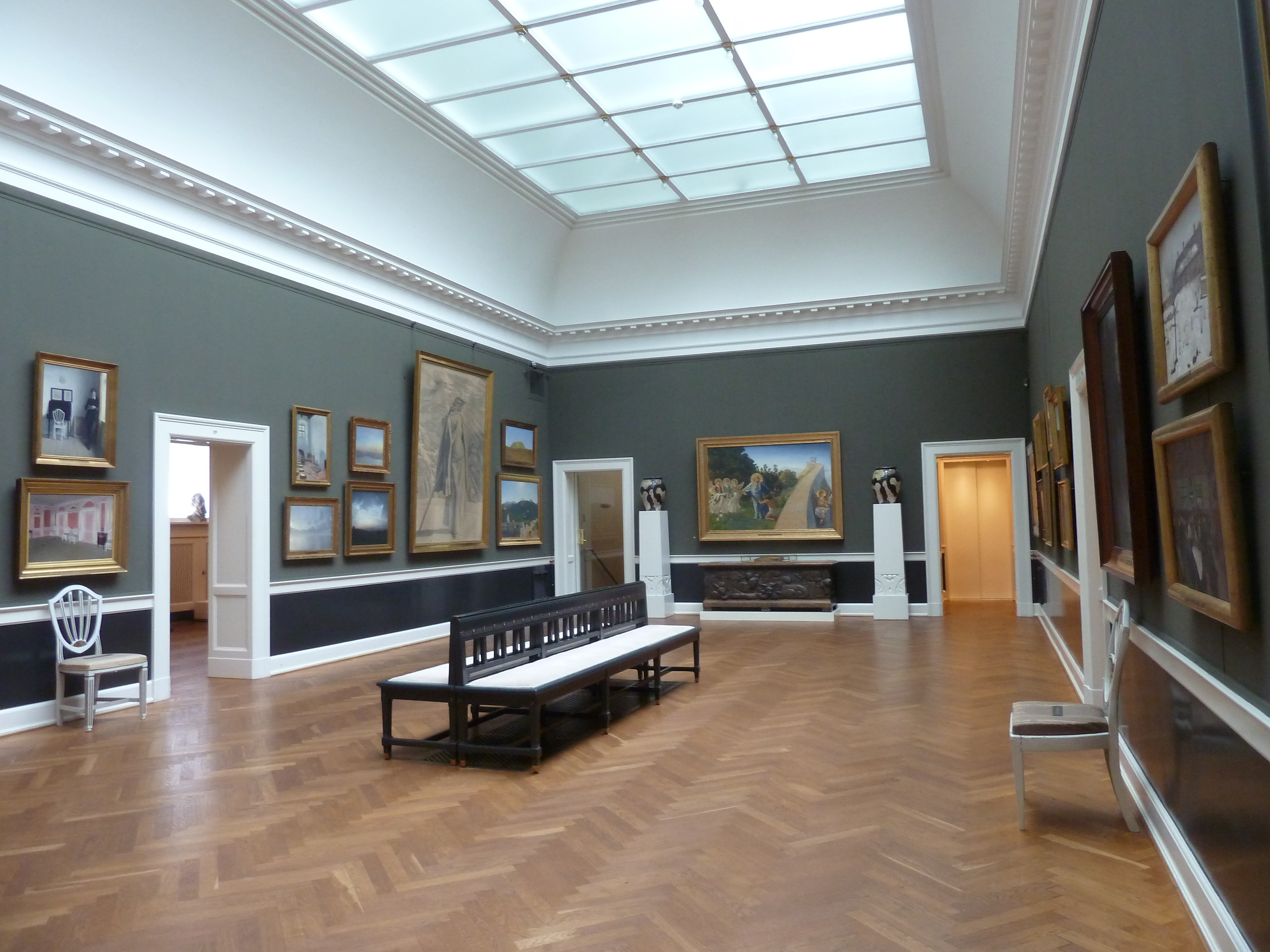 An interior from the Hirschsprung Collection in Copenhagen, Denmark